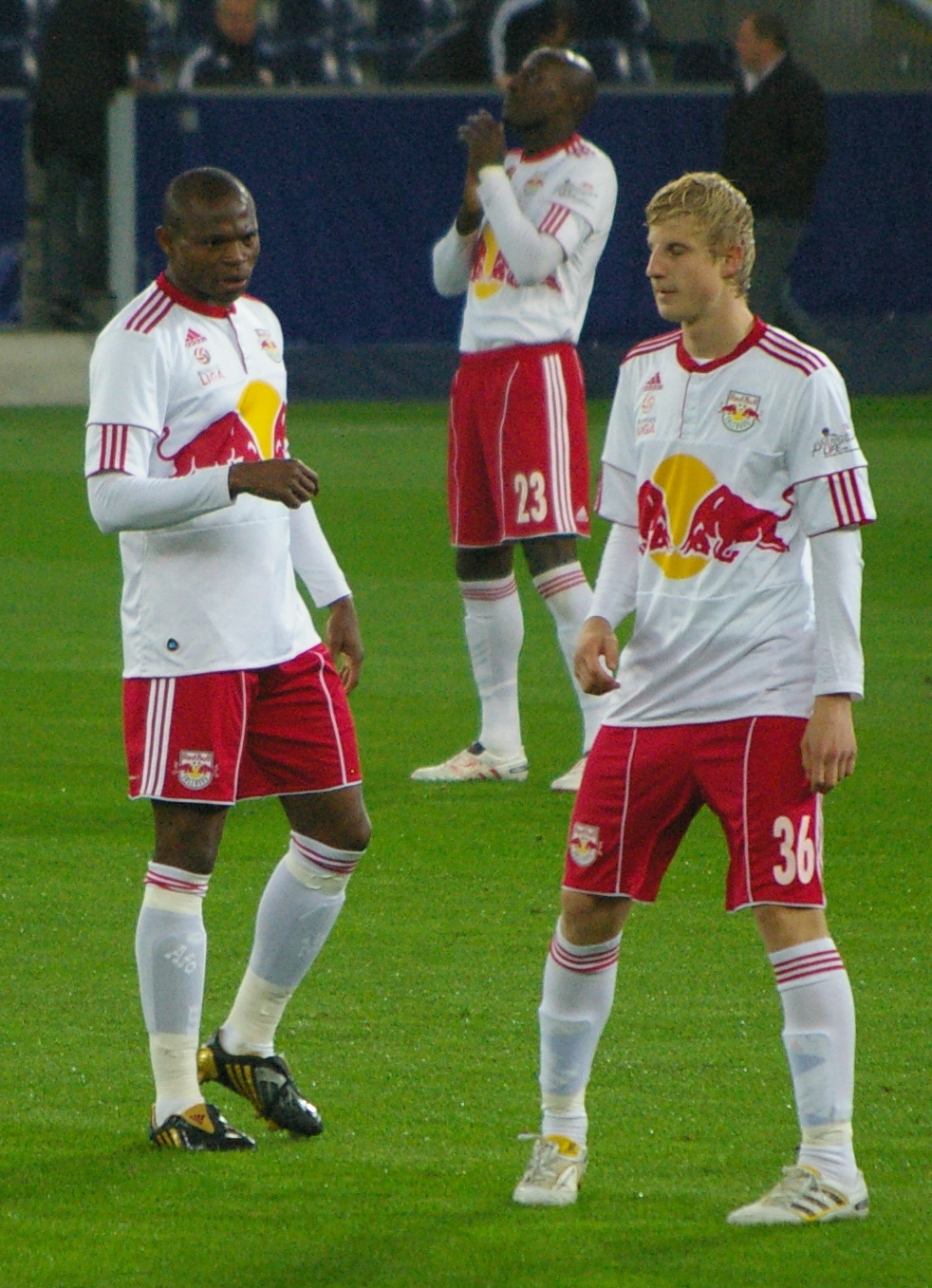 defenders FC Salzburg